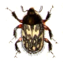 Heterocerus fenestratus, from Calwer's Käferbuch, Table 16, Picture 33. Taxonomy was updated to 2008, using mostly the sites Fauna Europaea and BioLib. Please contact Sarefo if the determination is wrong!